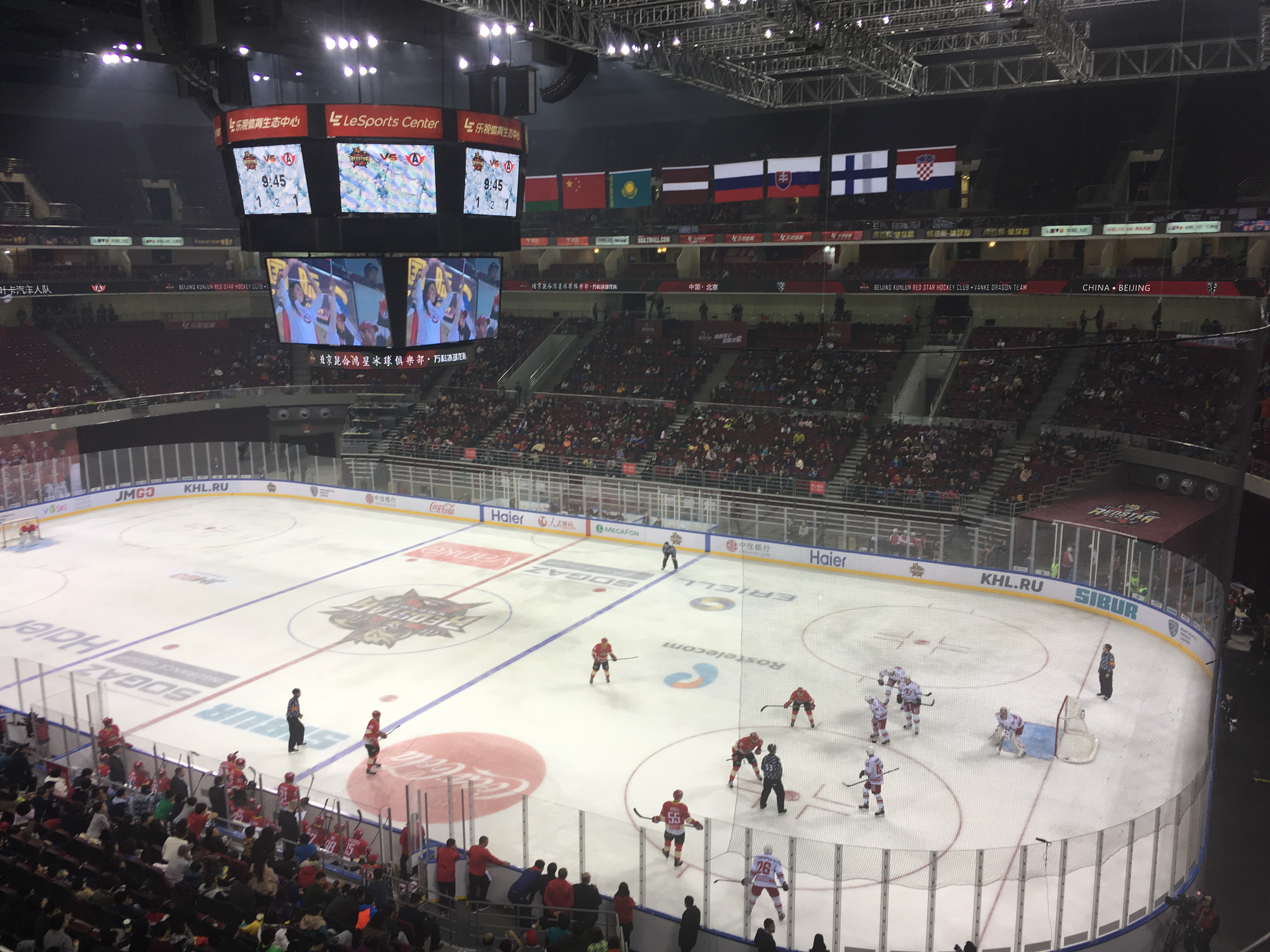 KHL match Kunlun Red Star vs Avtomobilist Yekaterinburg in the LeSports Center, Beijing on December 17th 2016